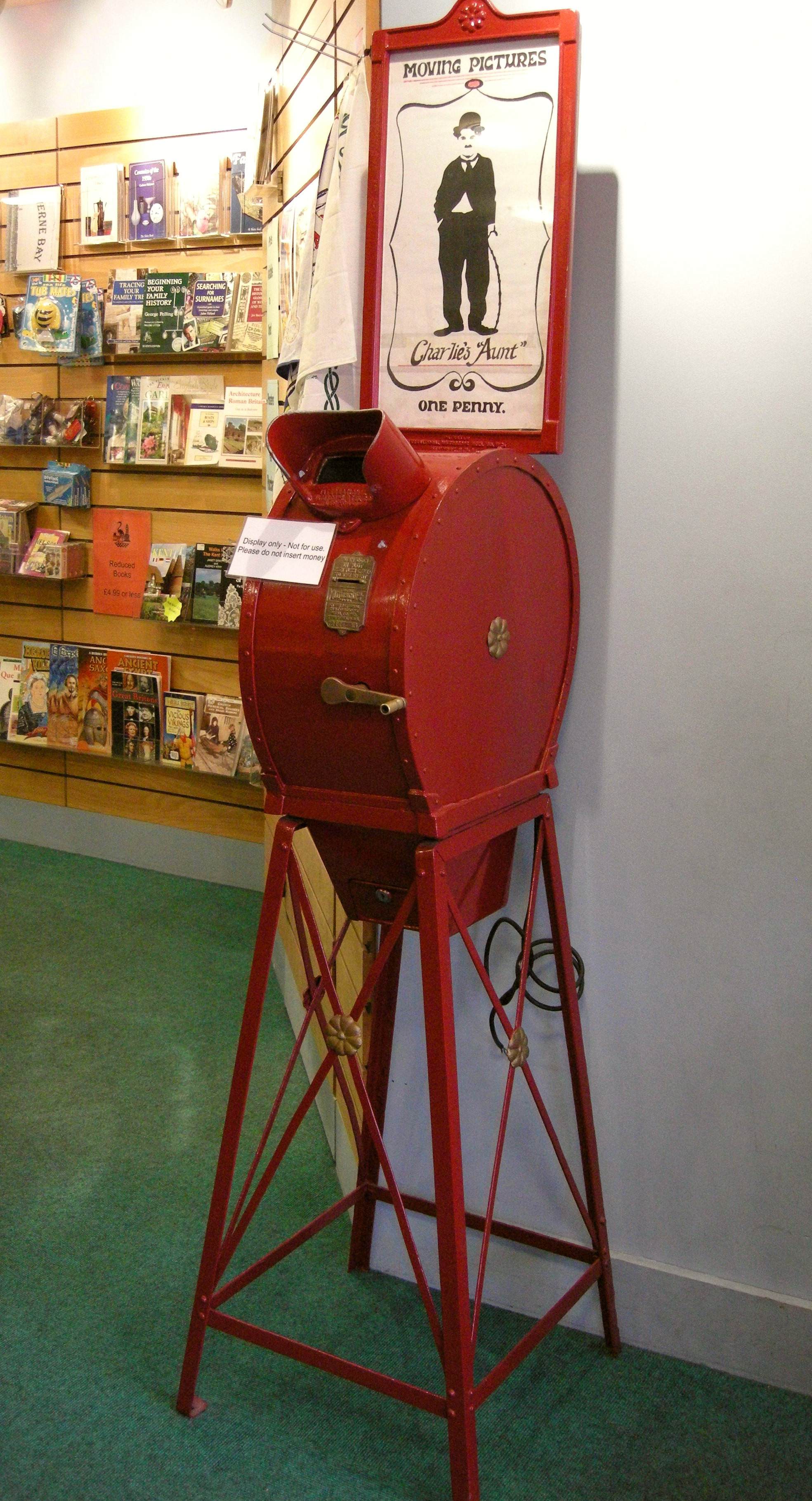 What-the-butler-saw machine at Herne Bay Museum and Gallery. Possibly Edwardian. These tourist amusements used a set of flicking cards containing sequential photographs to simulate moving pictures; they were cheap attractions in the entrances to indoor amusement arcades on piers or on the seafront. They tended to contain quaint and voyeuristic flicks: a typical one still in use at Southend pier in 1963 had a butler peeping through a keyhole to see his lady employer showing her ankles and voluminous bloomers.